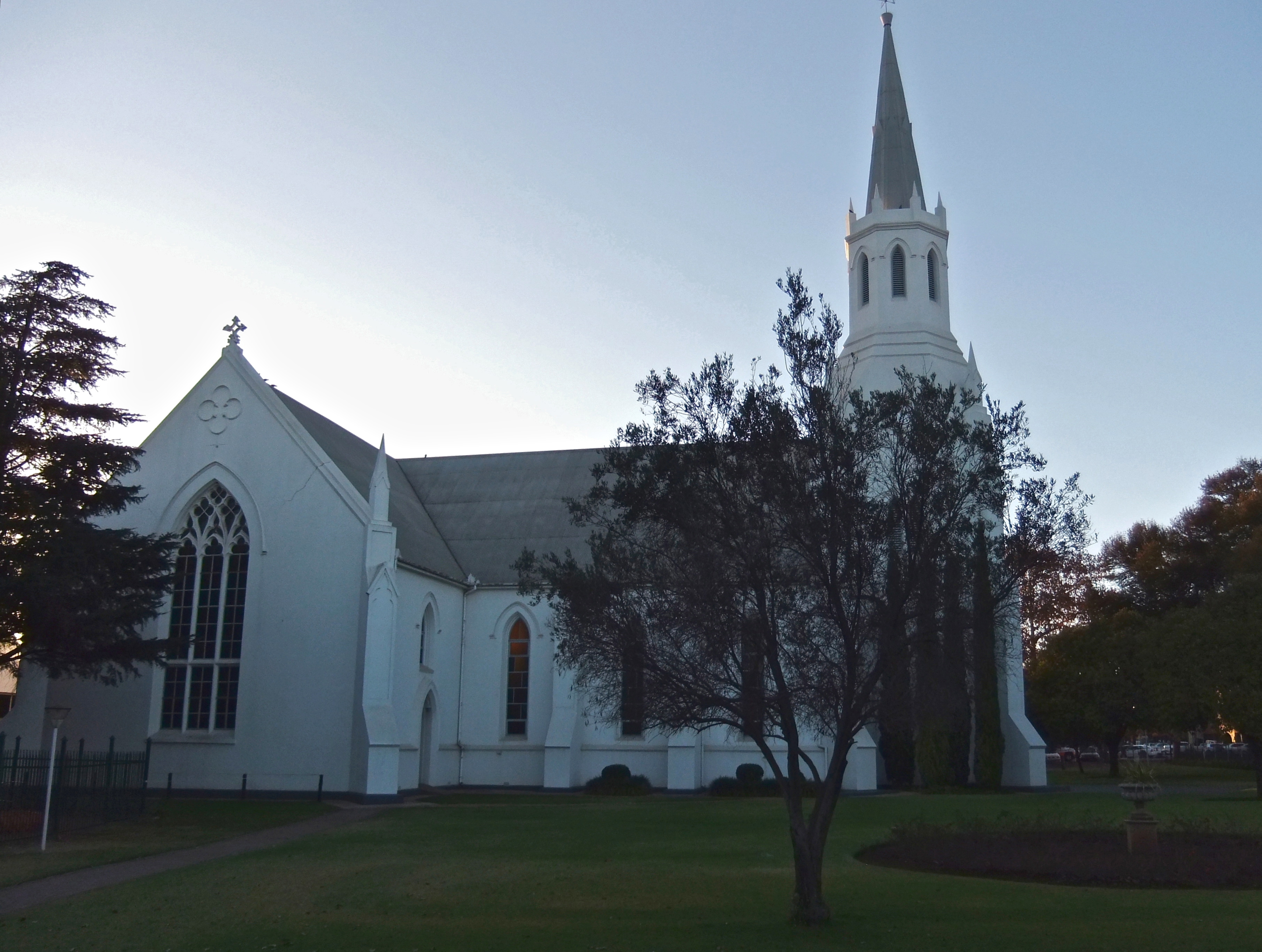 Dutch Reformed Gedenkkerk in Middelburg, Mpumalanga Province, South Africa built in 1890. This media shows a South African Protected Site with SAHRA file reference 9/2/242/0011.